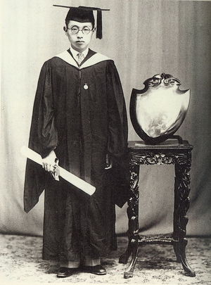 College graduation photo of Yen Chia-kan (1905-1993)